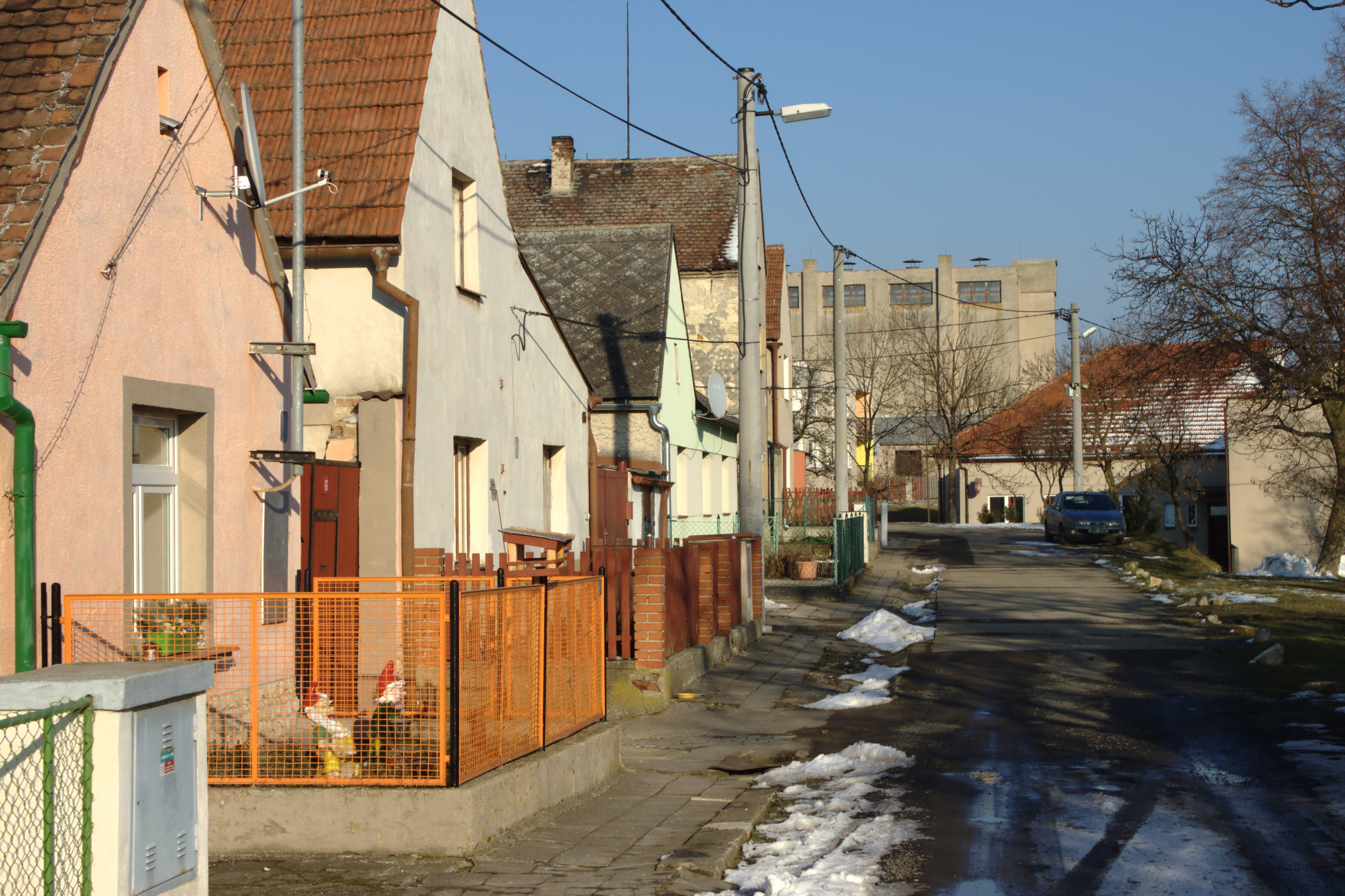 Central part of the town of Vrbičany in Kladno District, Prague, CZ